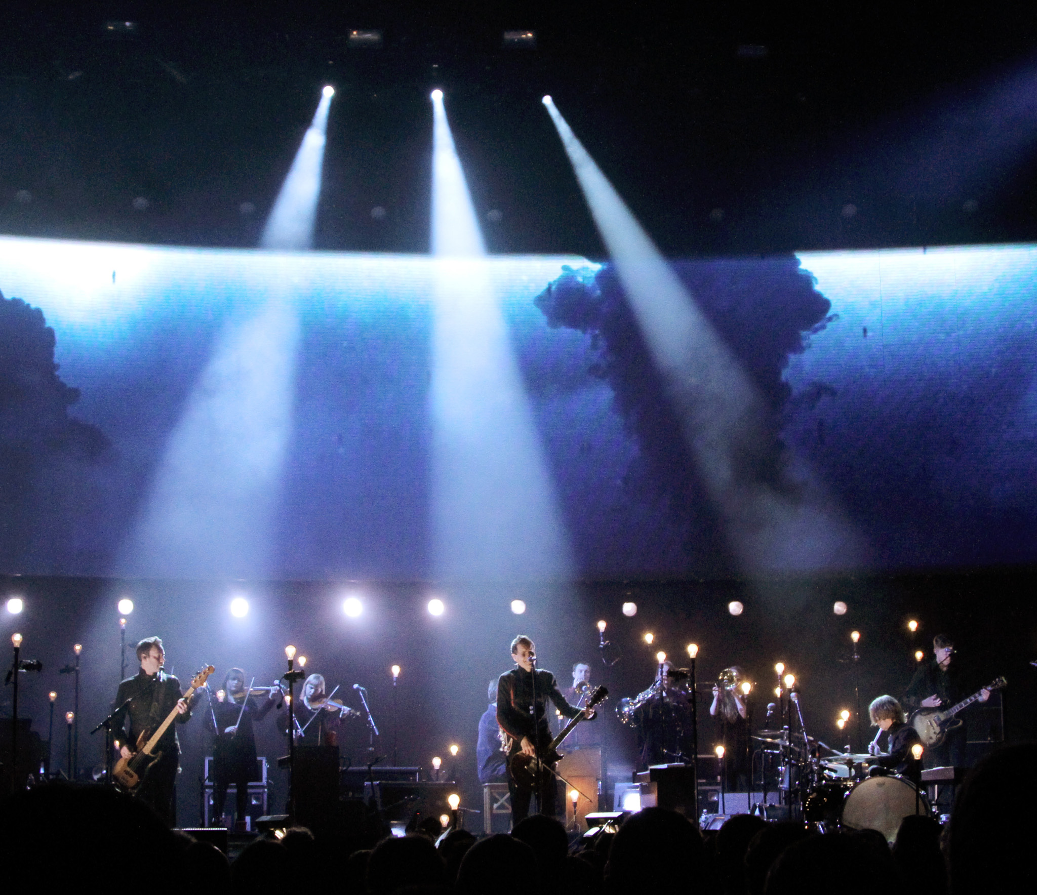 Sigur Ros at Madison Square Garden